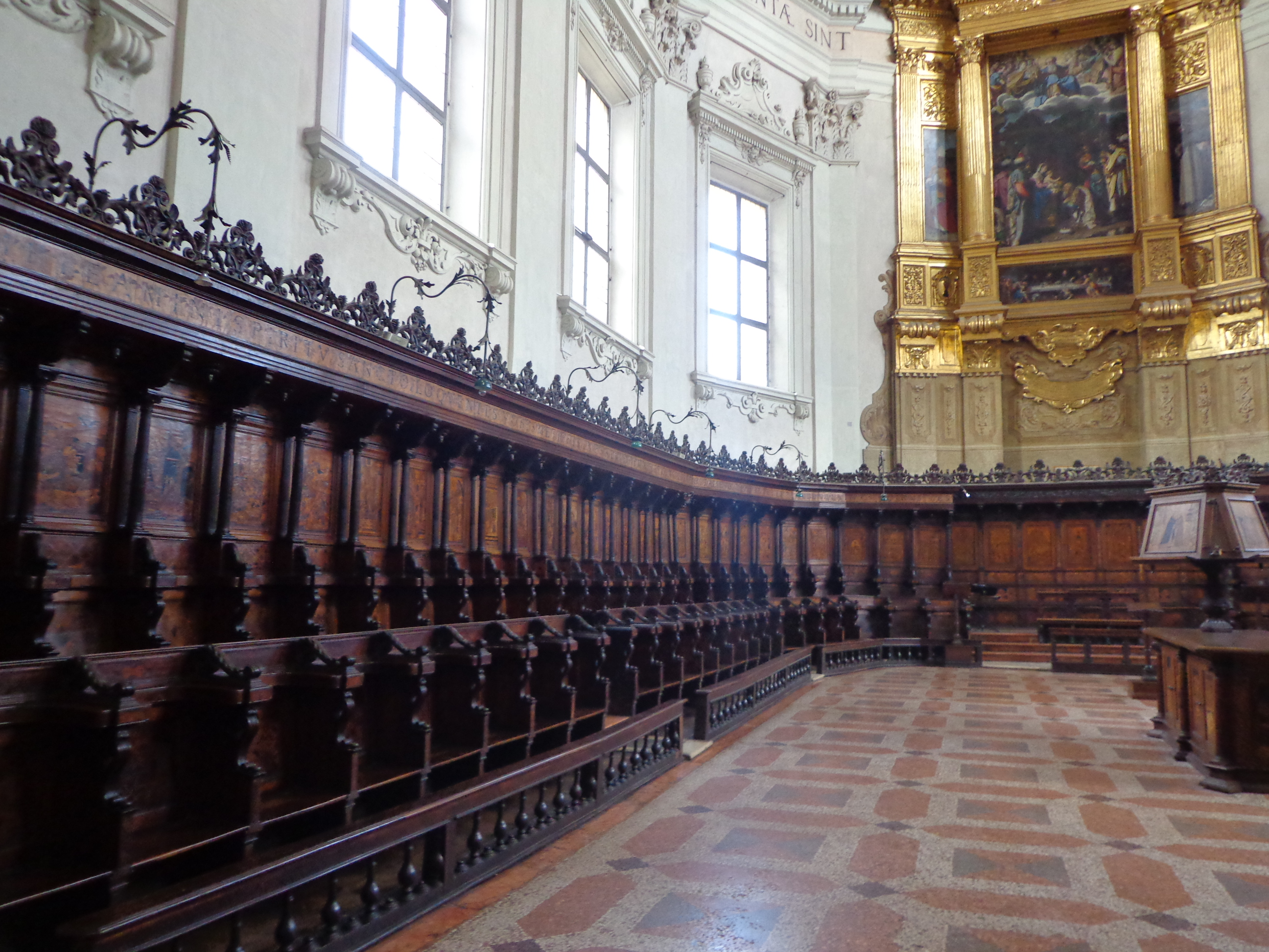 A few pictures taken in Bologna, Italy, July 2014